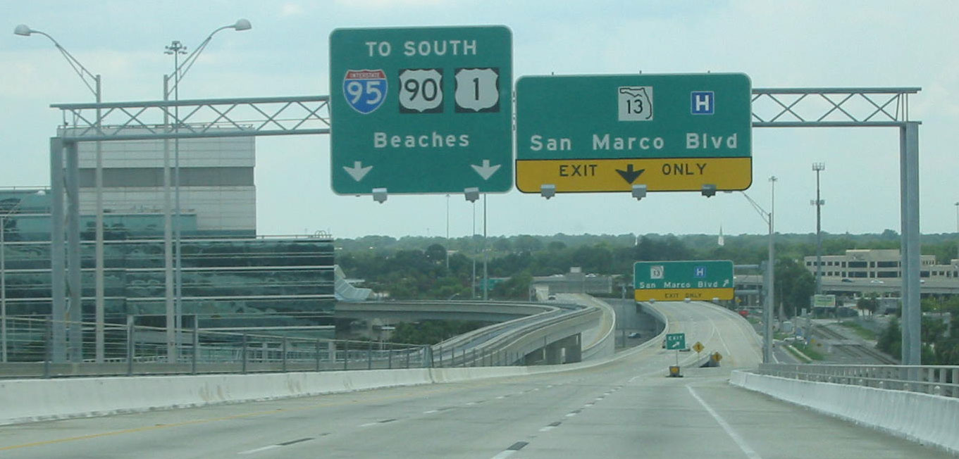 Looking south on the Acosta Bridge in Jacksonville, Florida at its south end. Taken July 11, 2004 by User:SPUI.